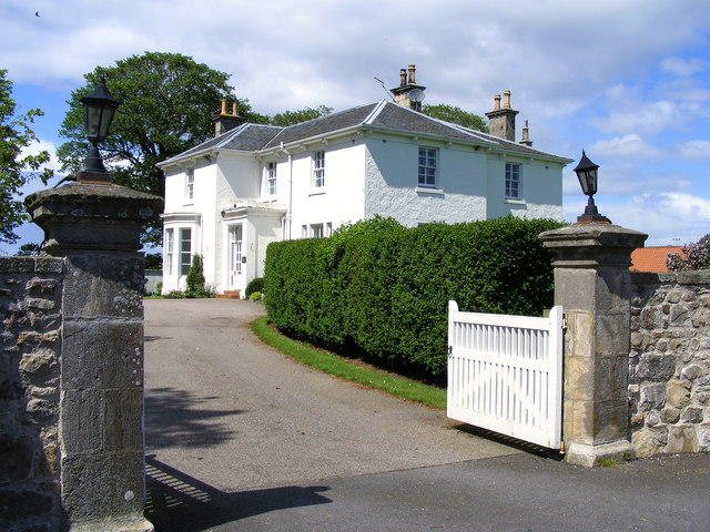 The Old Manse